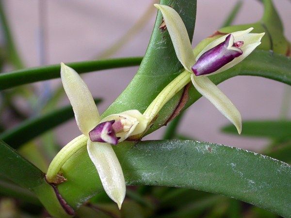 Heterotaxis equitans